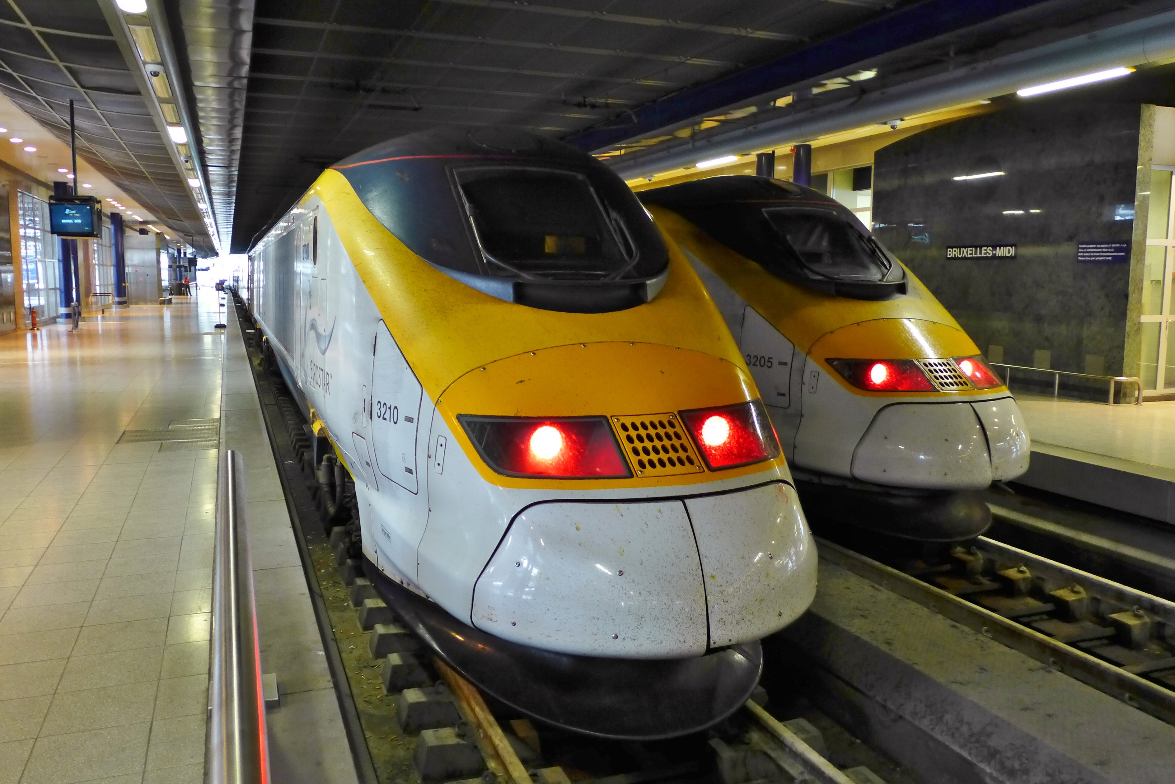 British Rail Class 373 Eurostar trains 373 210 (left) and 373 205 (right) laying over at Bruxelles-Midi / Brussel-Zuid